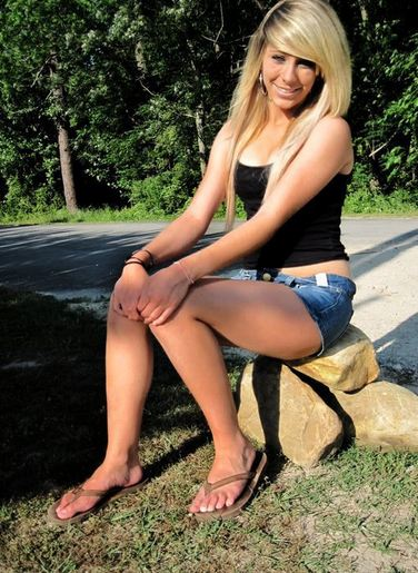 model